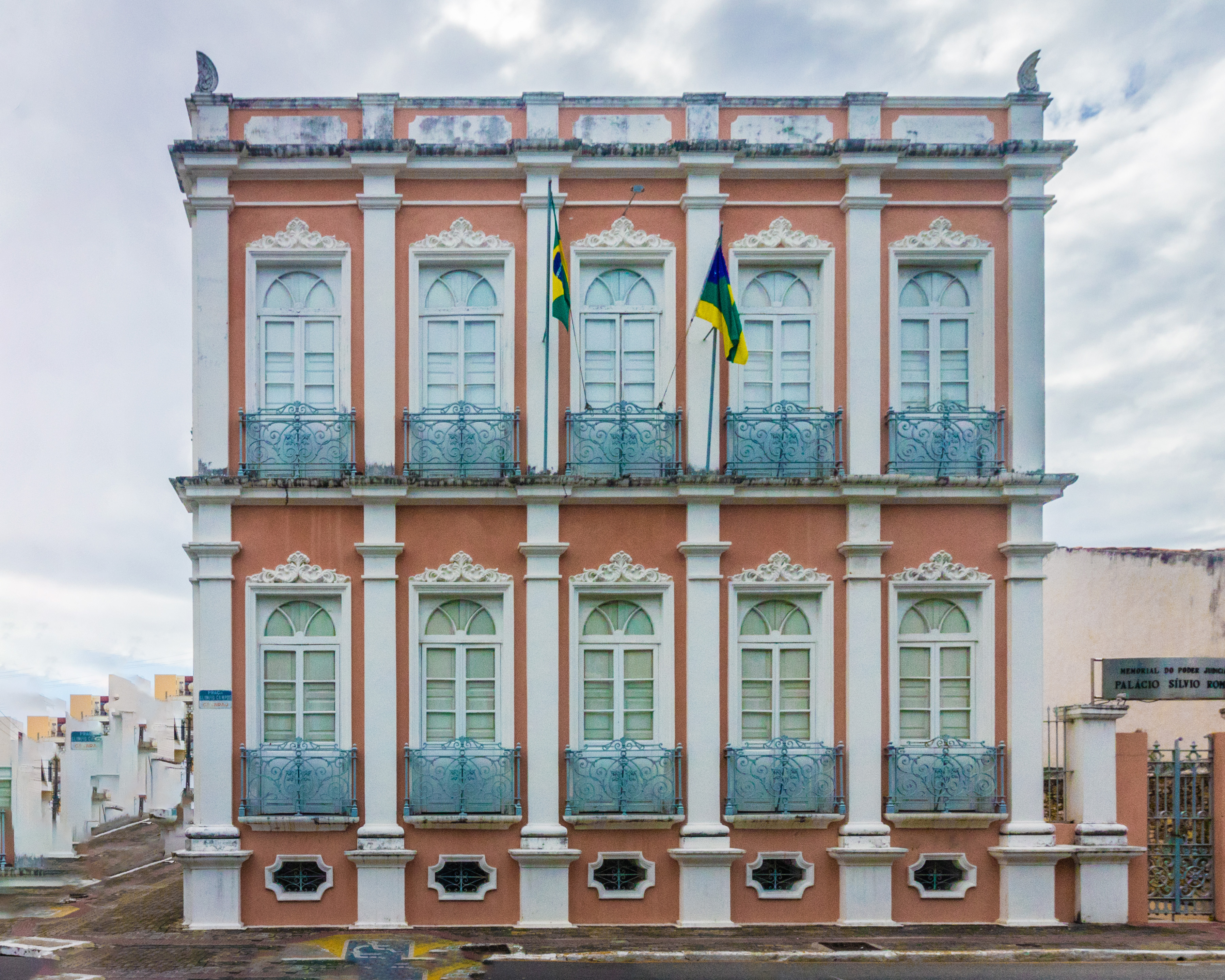 Palácio Silvio Romero, originally the Tribunal de Relação, the first judicial body in Sergipe. Constructed in the Eclectic style in 1894.